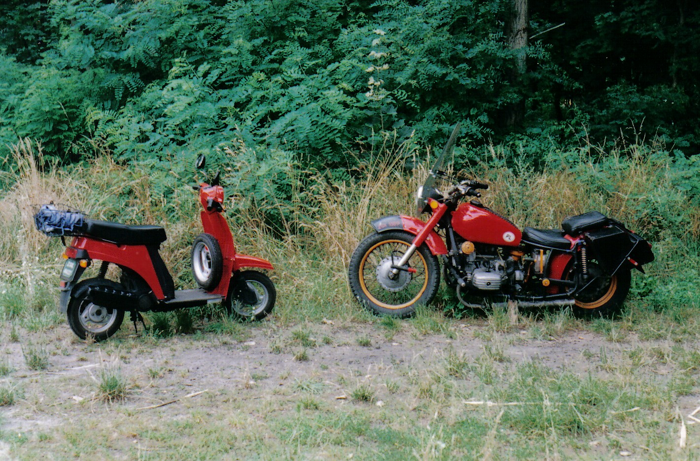 A scooter (Bajaj Sunny) and a Ural motorcycle. Author: Mohylek